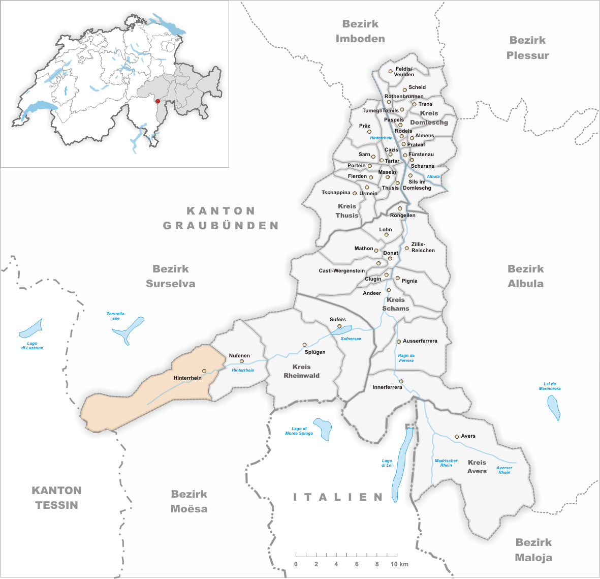 Municipality Hinterrhein